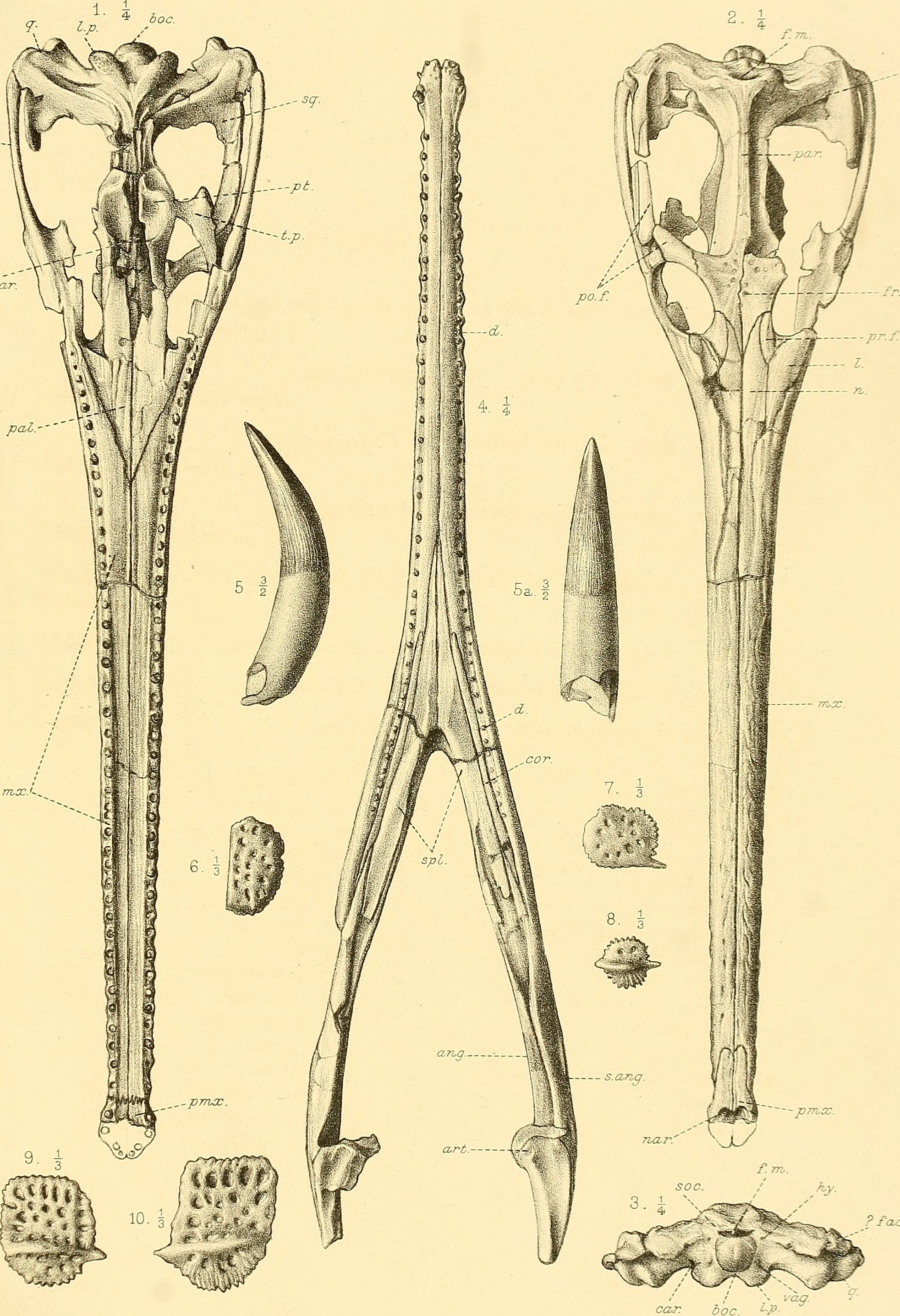 Title: A descriptive catalogue of the marine reptiles of the Oxford clay. Based on the Leeds Collection in the British Museum (Natural History), London .. Year: 1910 (1910s) Authors: British Museum (Natural History). Dept. of Geology; Andrews, Charles William, 1866-1924 Subjects: Reptiles, Fossil Publisher: London, Printed by order of the Trustees Text Appearing Before Image: CATAL. MARINE REPT. OXFORD CLAY. PART II. PLATE V. Â£/-~ Text Appearing After Image: /â " G.M.Woodward del.et litli. West.l\7ewmarL irrm. STENEOSAURUS LEEDSI.